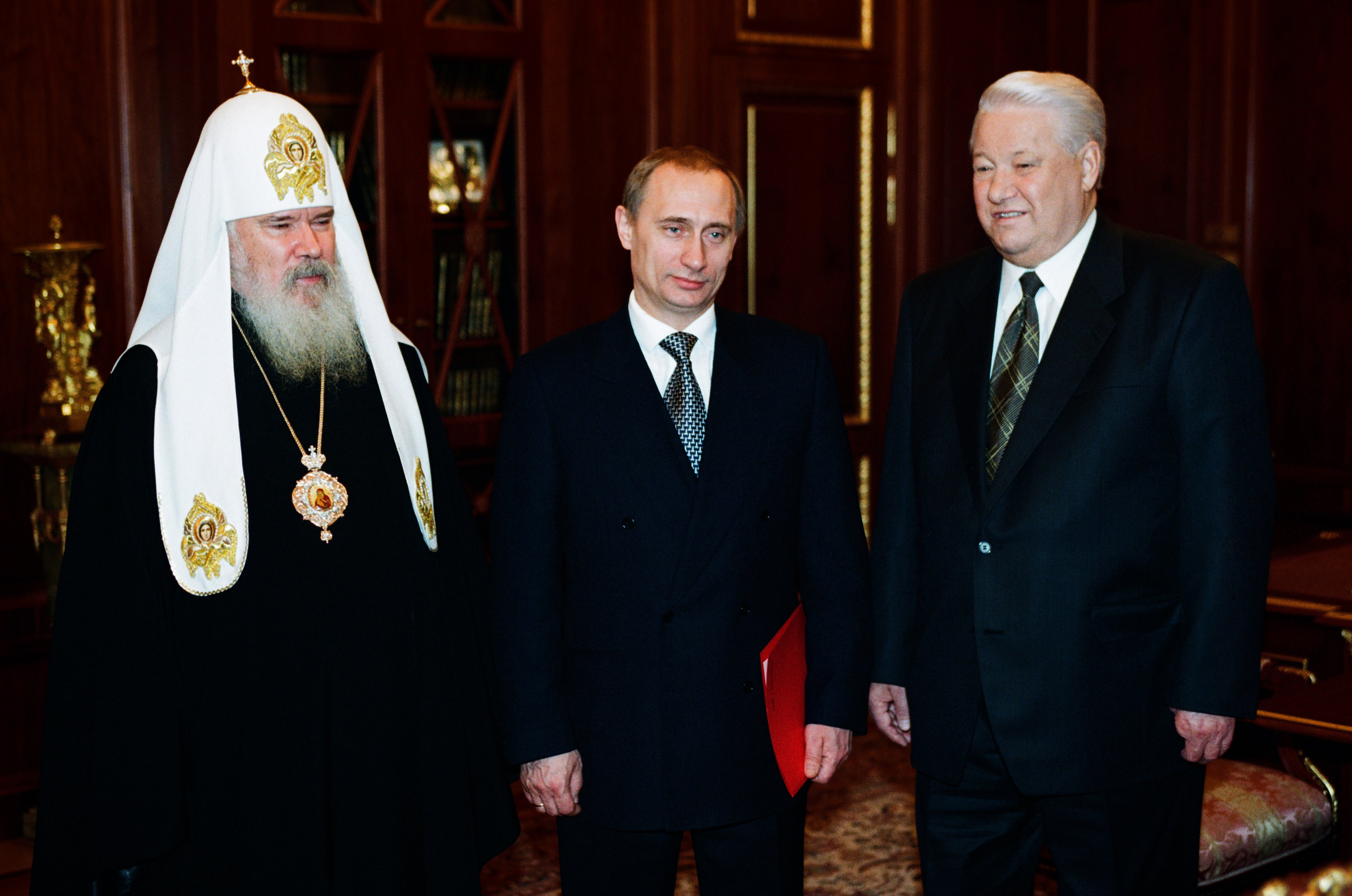 THE KREMLIN, MOSCOW. President Boris Yeltsin with Patriarch Alexy II of Moscow and All Russia and Prime Minister Vladimir Putin.